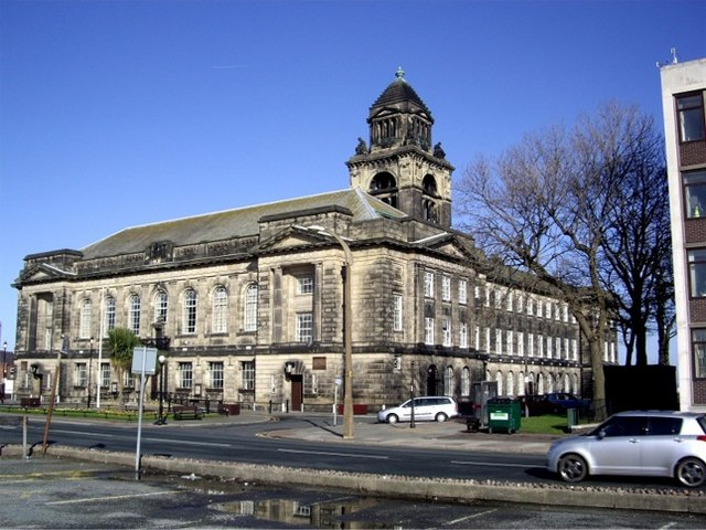 Wallasey Town Hall